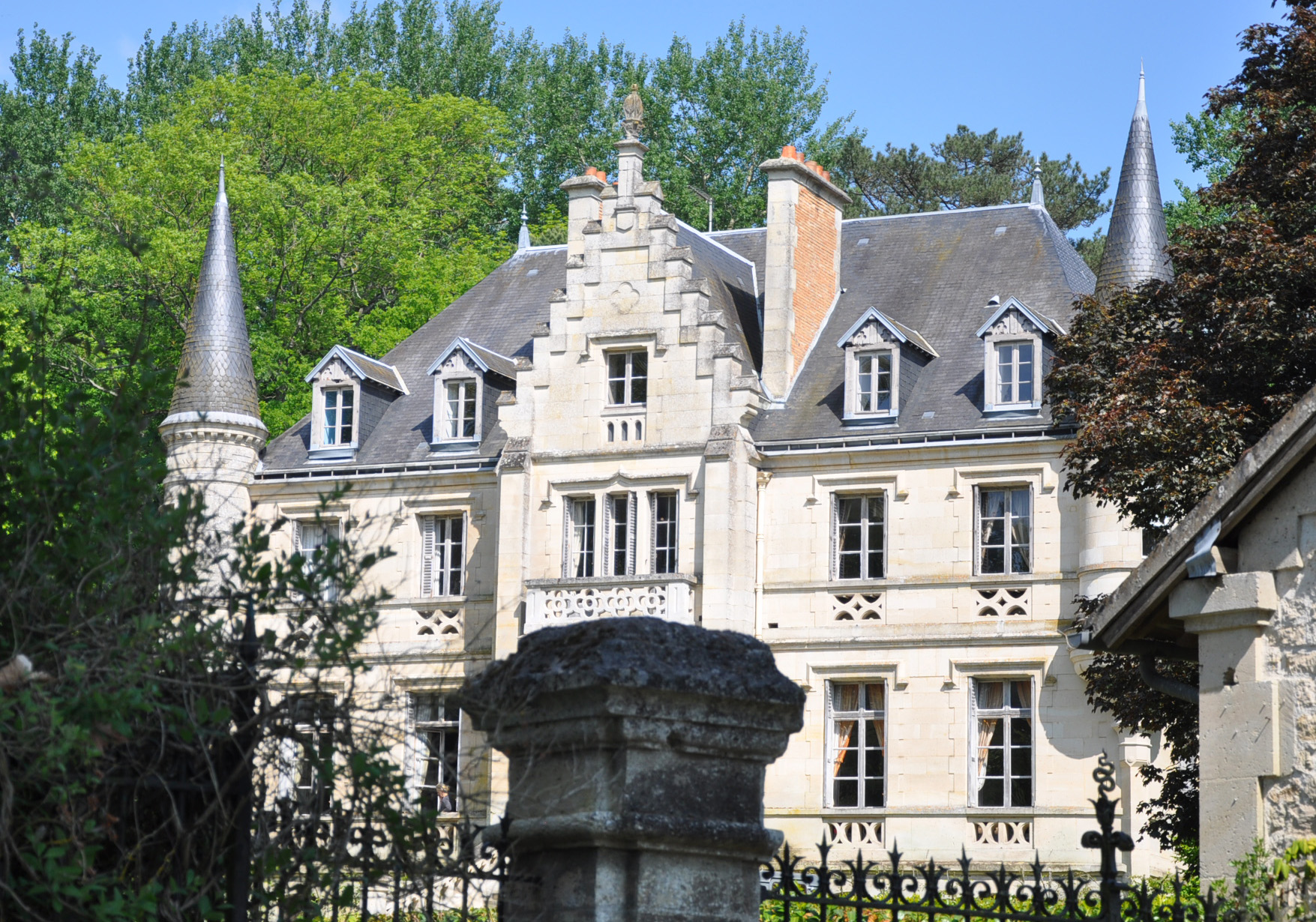 Château de Pondron